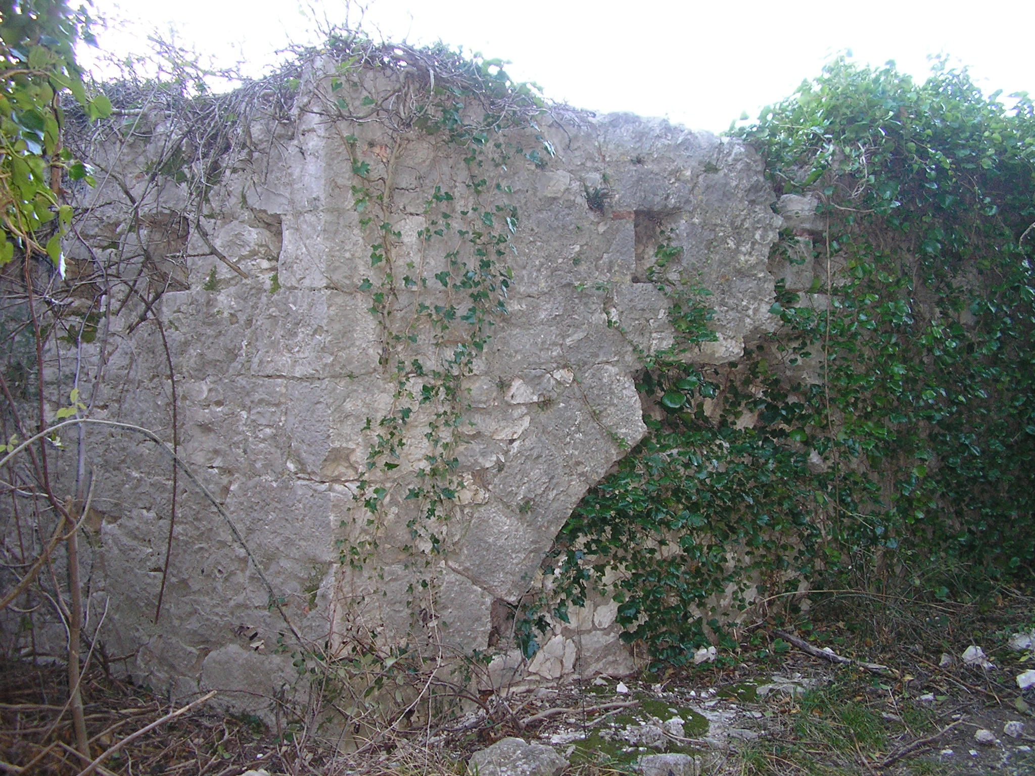 Kula Norinska fort